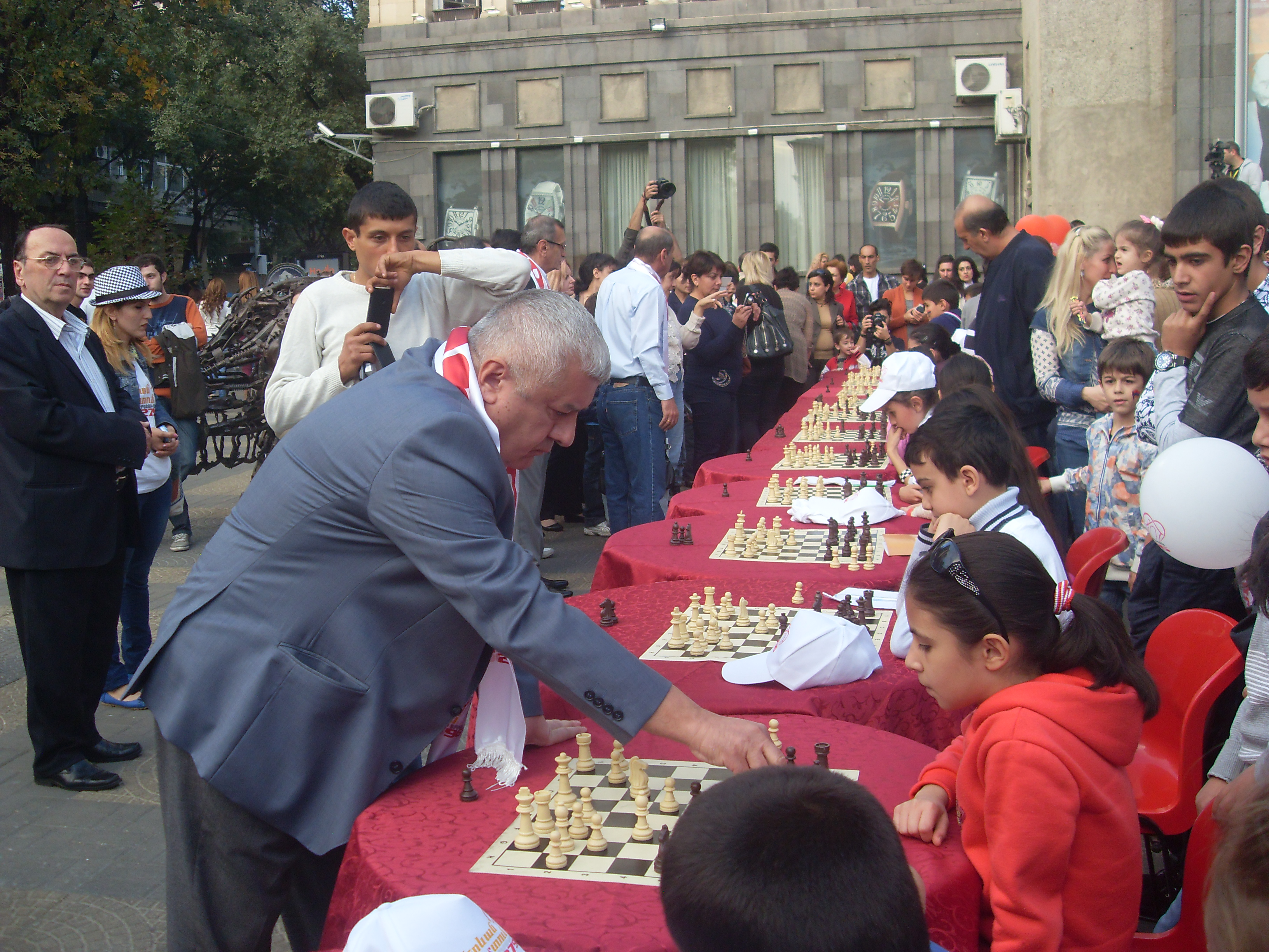 Rafael Vaganian - is an Armenian chess grandmaster.